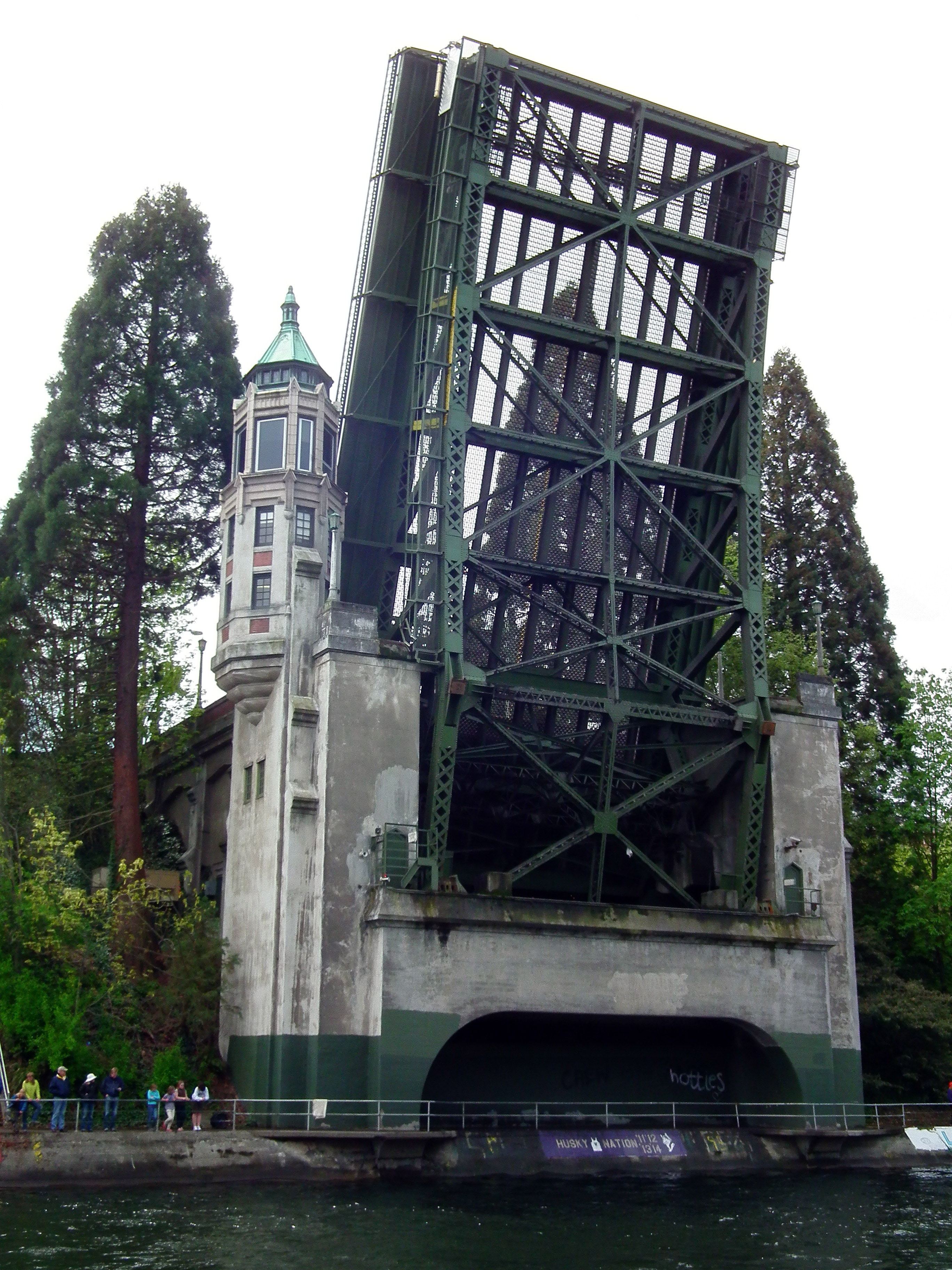 The south end of Montlake Bridge from below during an opening of the bridge, Opening Day of Boating Season, Seattle, Washington, USA.